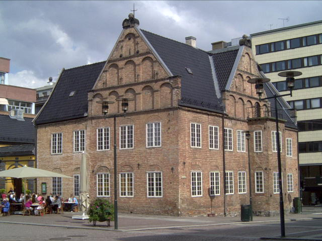 Rådmannsgården, Rådhusgata 19, Oslo, Norway